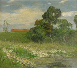 Carola Baer-von Mathes - summer landscape. Flowering meadows on a pond